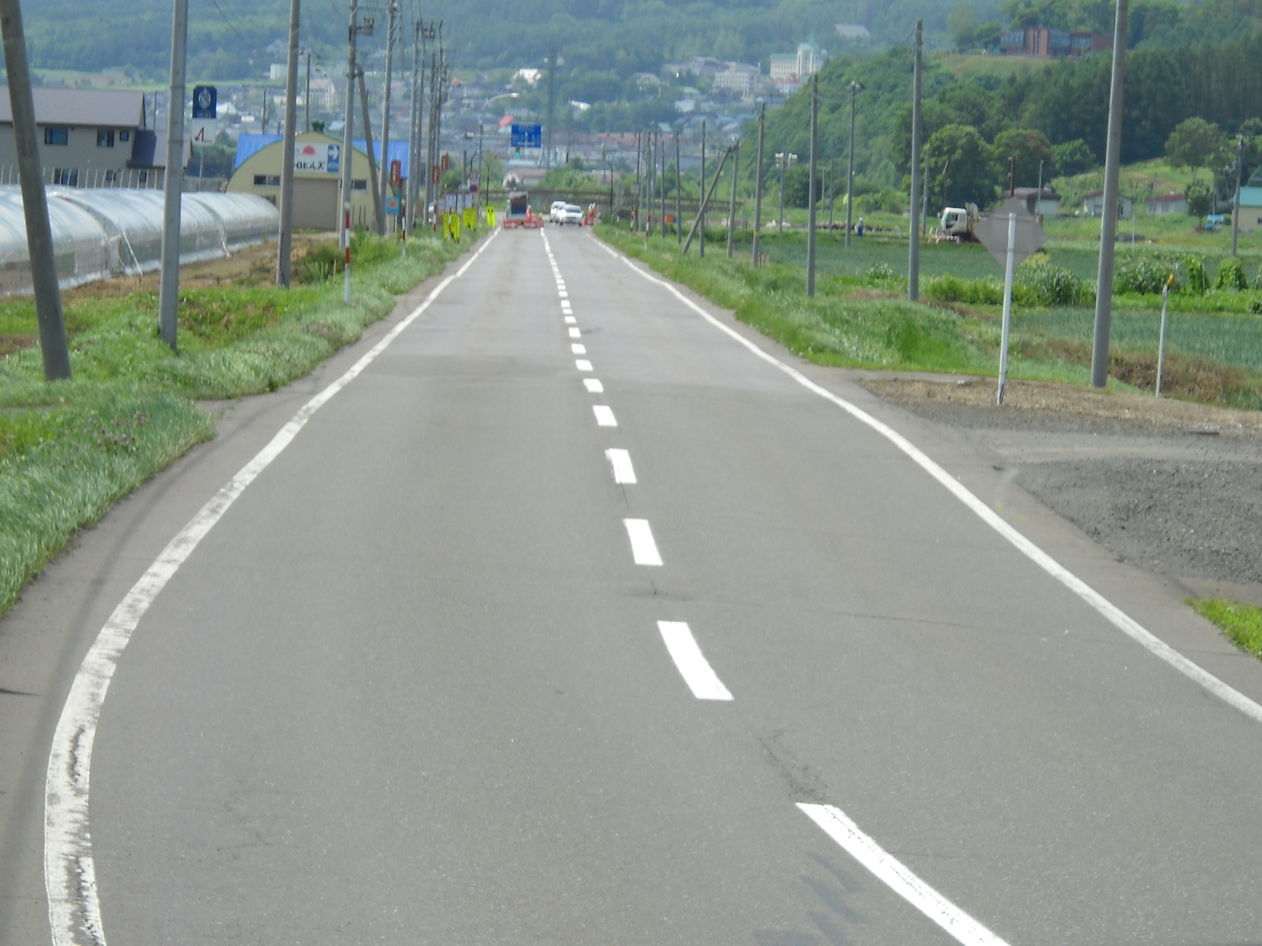 Hokkaido prefectural road route759, Furano, Hokkaido, Japan